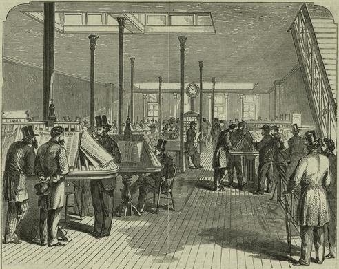 Merchants' Exchange and Newsroom, 50 and 52 Pine Street, New York ; the reading-room